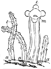 Original description "Animals of M. alcicornis expanded; magnified. a a small Hydroid, larger Hydroid, t tentacles, m mouth. (Agassiz.)"